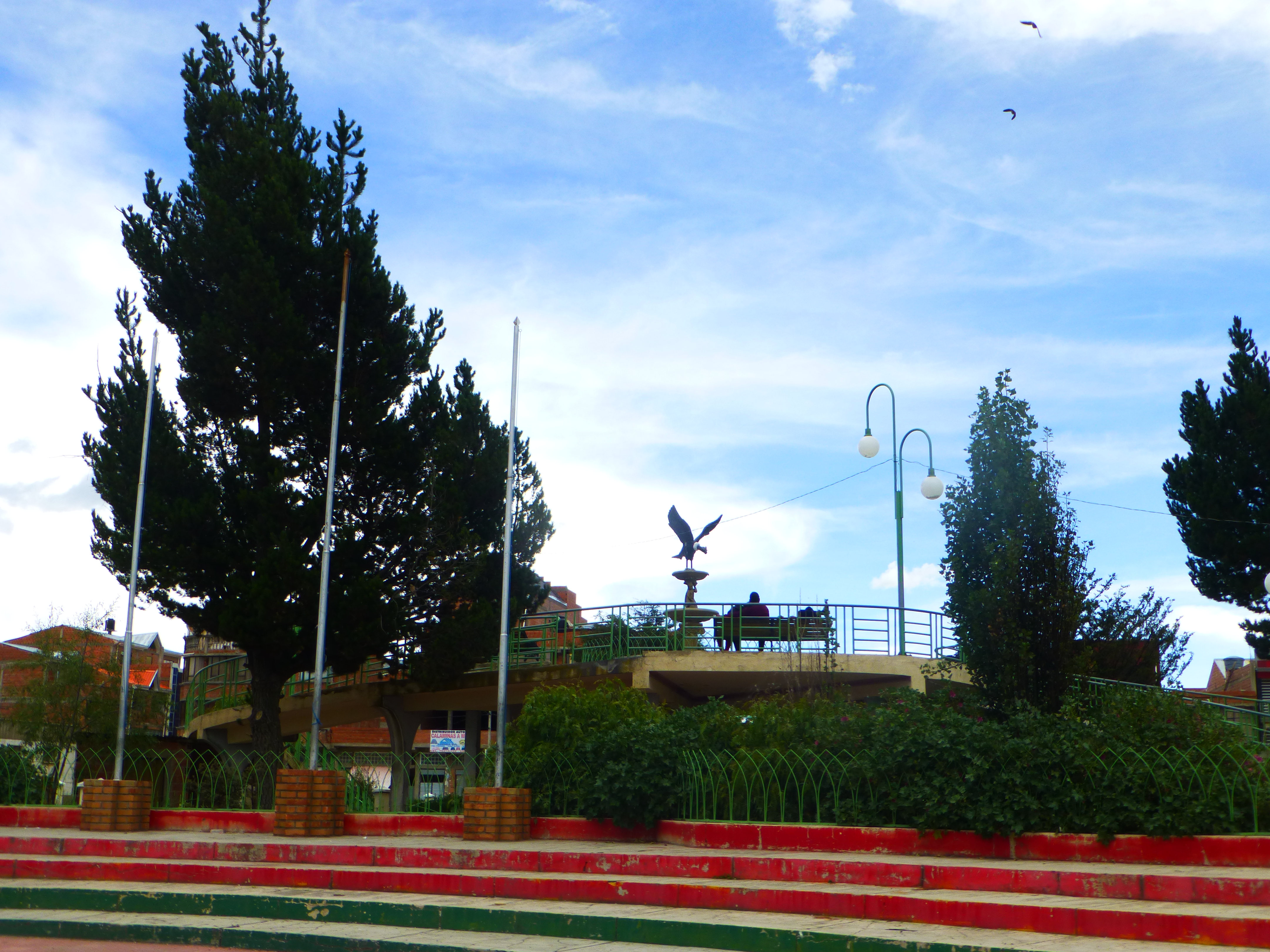 Batalla's main square, Bolivia